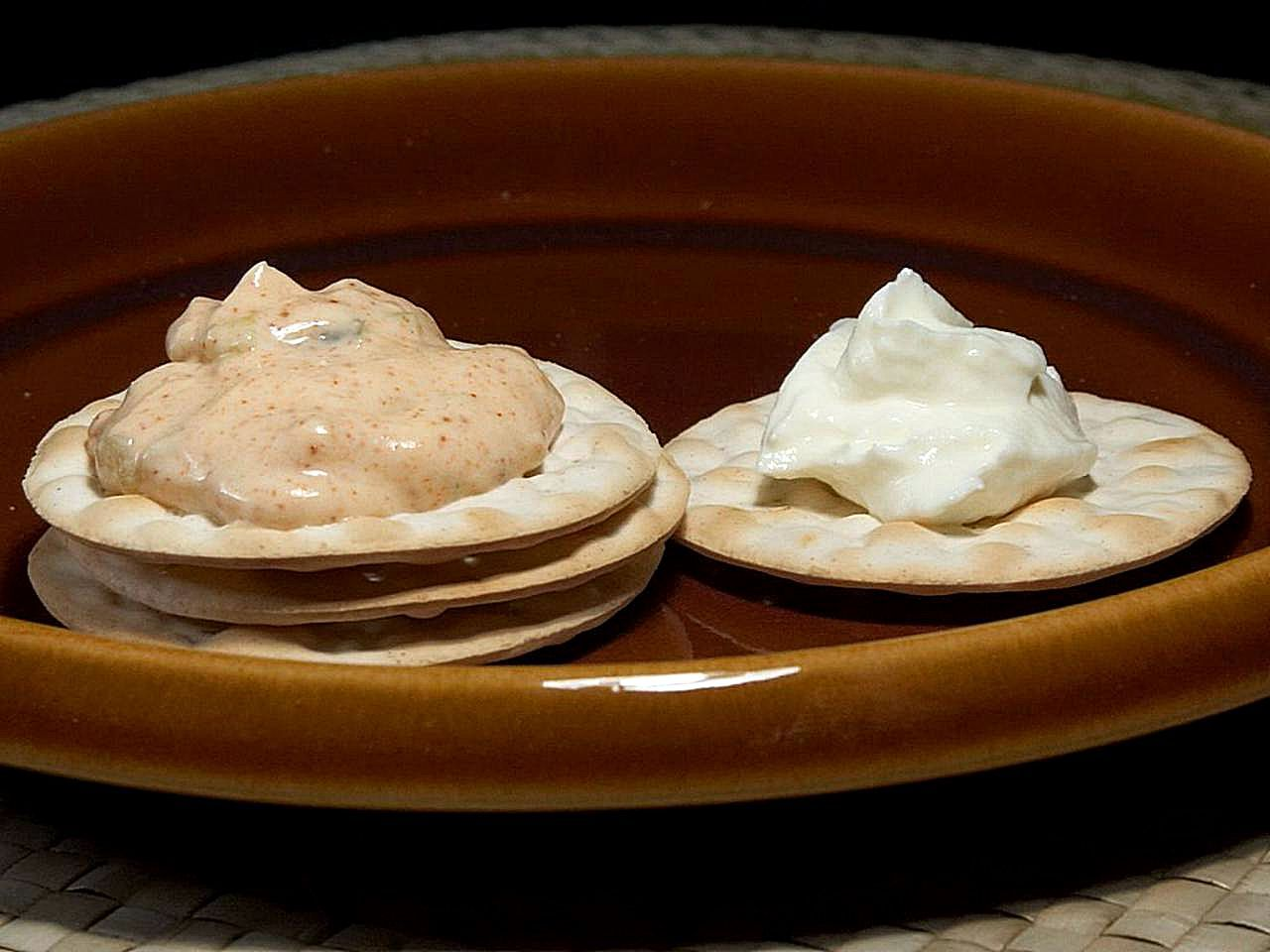 Image title: Quark liptauer cheese Image from Public domain images website